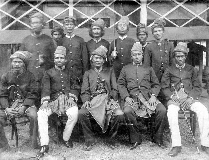 Group portrait with Teuku Oemar